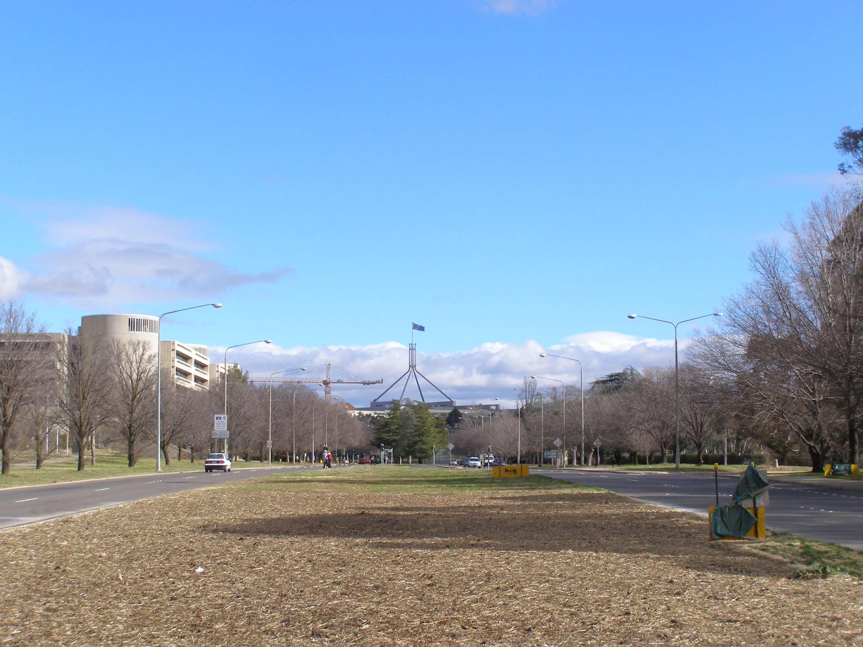 Kings Avenue. Taken by Ben McCarthy on 3/7/06